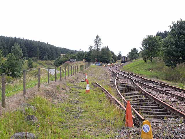 Whitrope Heritage Centre A short length of restored railway line near the summit of the Waverley Route which was the North British Railway's line between Edinburgh and Carlisle, through the Scottish Borders. Opened in two stages, between 1849 and 1862, the railway linked the Border towns of Galashiels, Melrose, St.Boswells and Hawick. Despite sterling efforts by enthusiasts to prevent closure, it finally closed in November 1967. The Whitrope Heritage Centre is planning to restore a short section of the line between Whitrope and Riccarton Junction, the junction with the Border Counties Railway to Hexham.